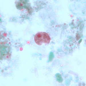 Trophozoite